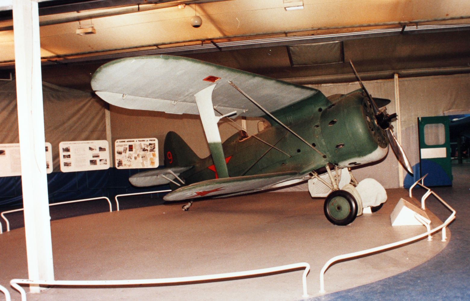 Catalog #: 15_002216 Title: Polikarpov I-15 ADDITIONAL INFORMATION: Musee D'L' Aire Paris Collection: Charles M. Daniels Collection Photo Album Name: Soviet Aircraft Page #: 9 Tags: Soviet Aircraft, Charles Daniels, PUBLIC COMMONS.SOURCE INSTITUTION: San Diego Air and Space Museum Archive